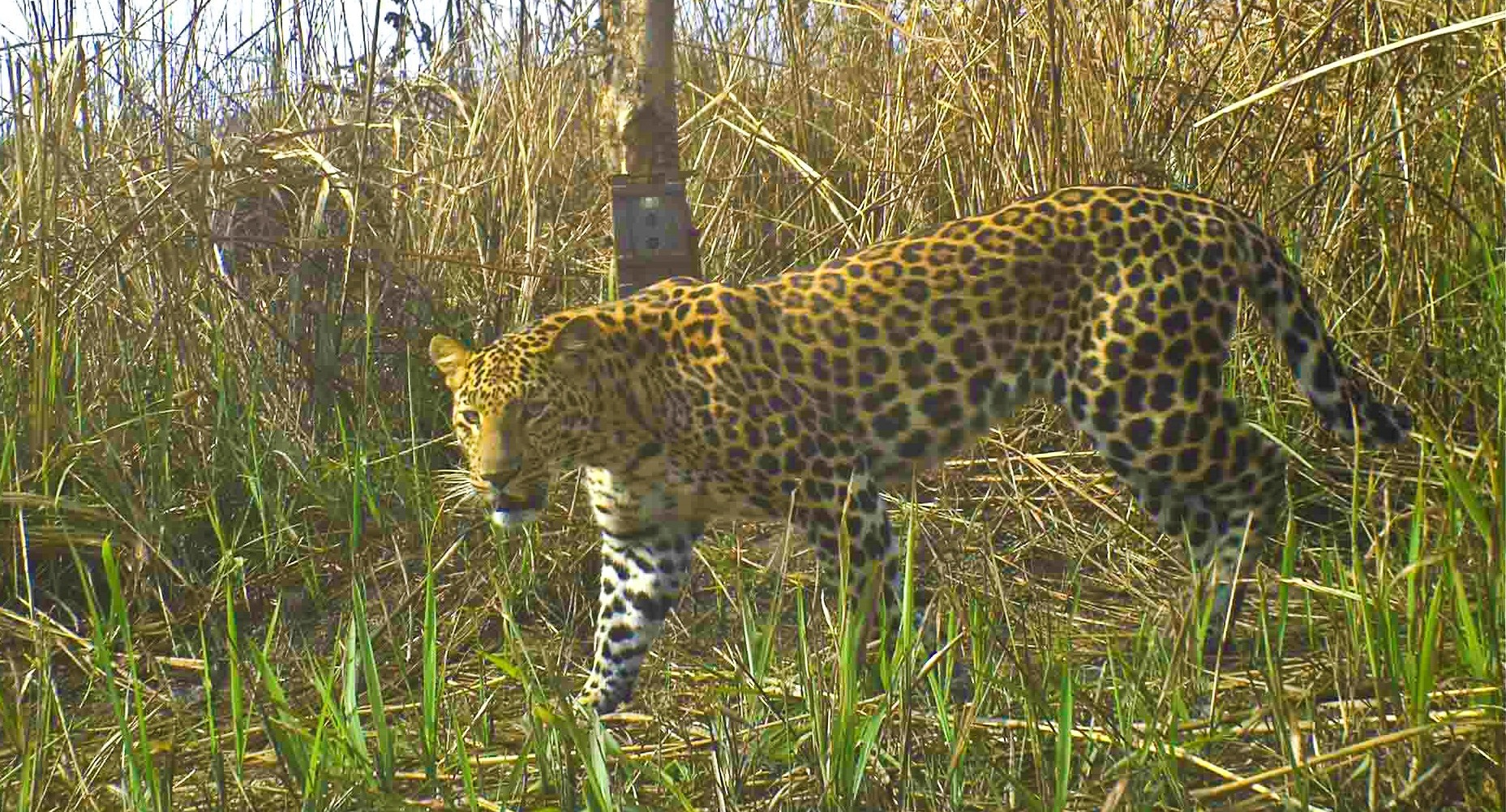 Captured in Camera Trap from Manas National Park